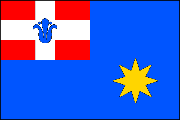 Municipal flag of Míškovice village, Kroměříž District, Czech Republic.